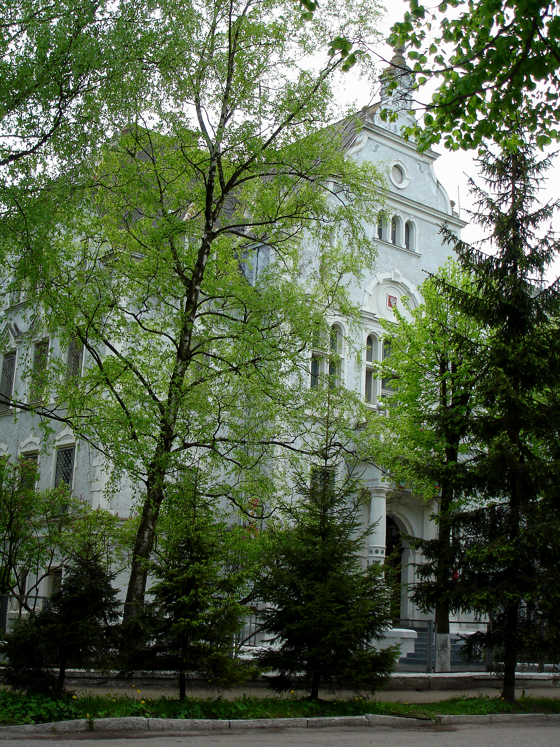 Gusev